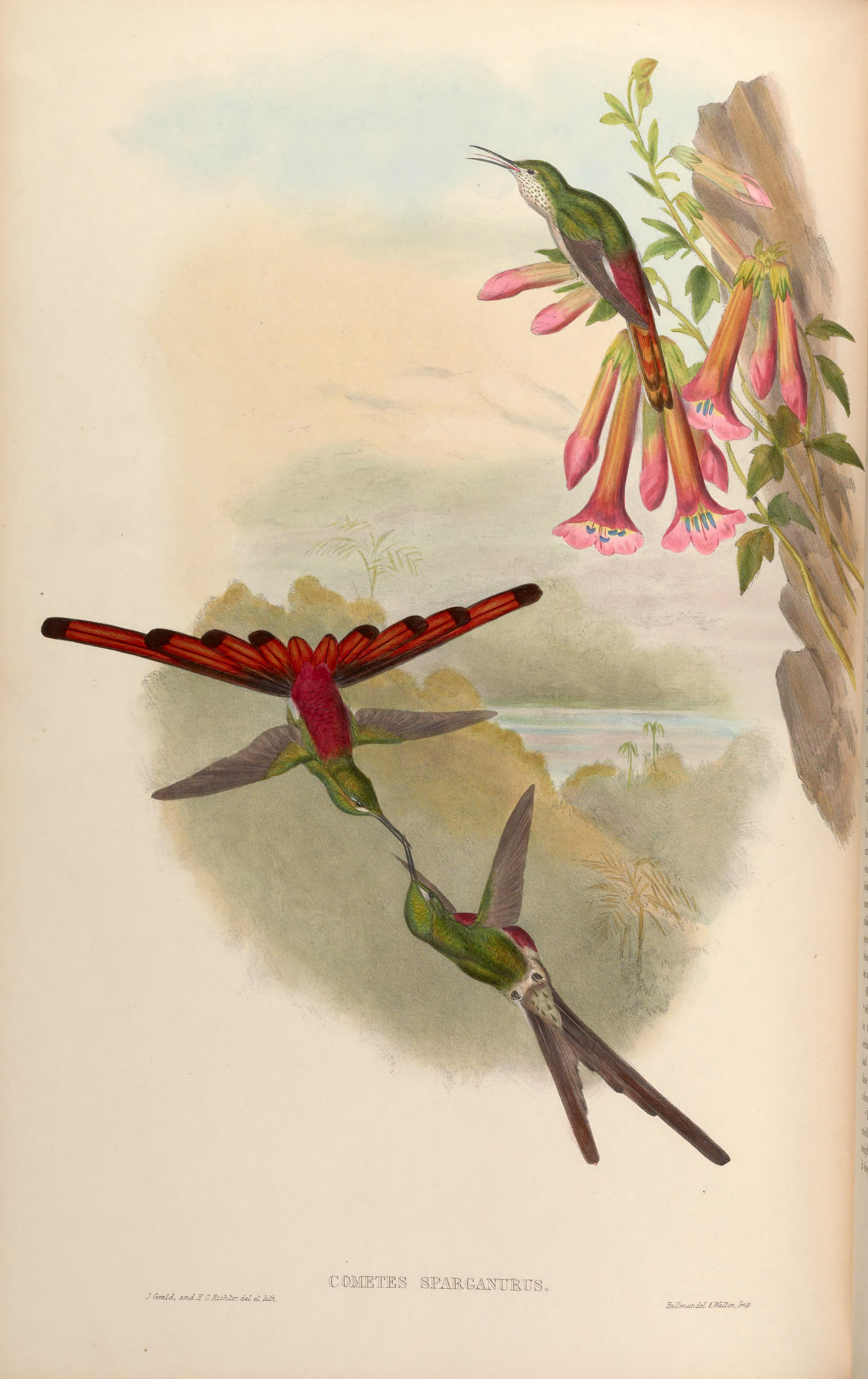 Cometes sparganurus = Sappho sparganura [1]